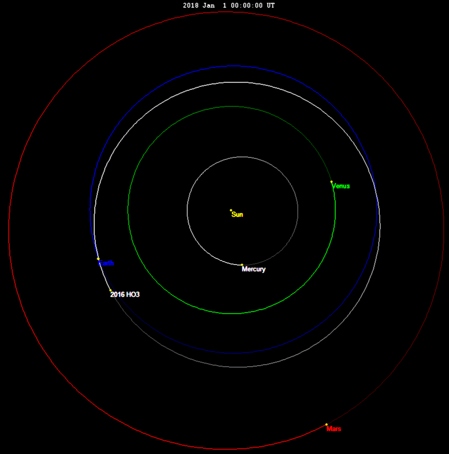 en:2016 HO3 with positions on Jan 1, 2018